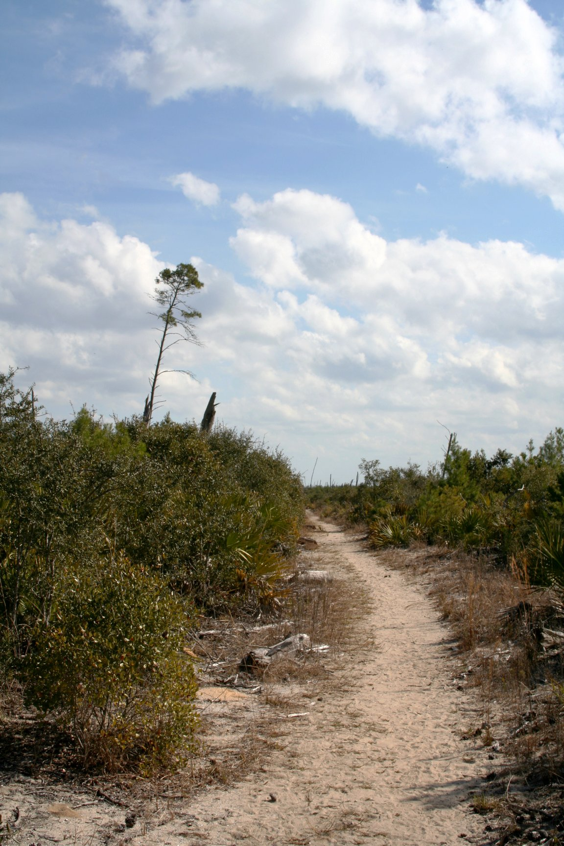 Photograph of the Yearling Trail in the Juniper Prairie Wilderness in the Ocala National Forest, Florida, USA taken by Rolf Müller on January 28 2006 using a Canon Inc. EOS 350D digital camera with an EFS 18-55mm lens